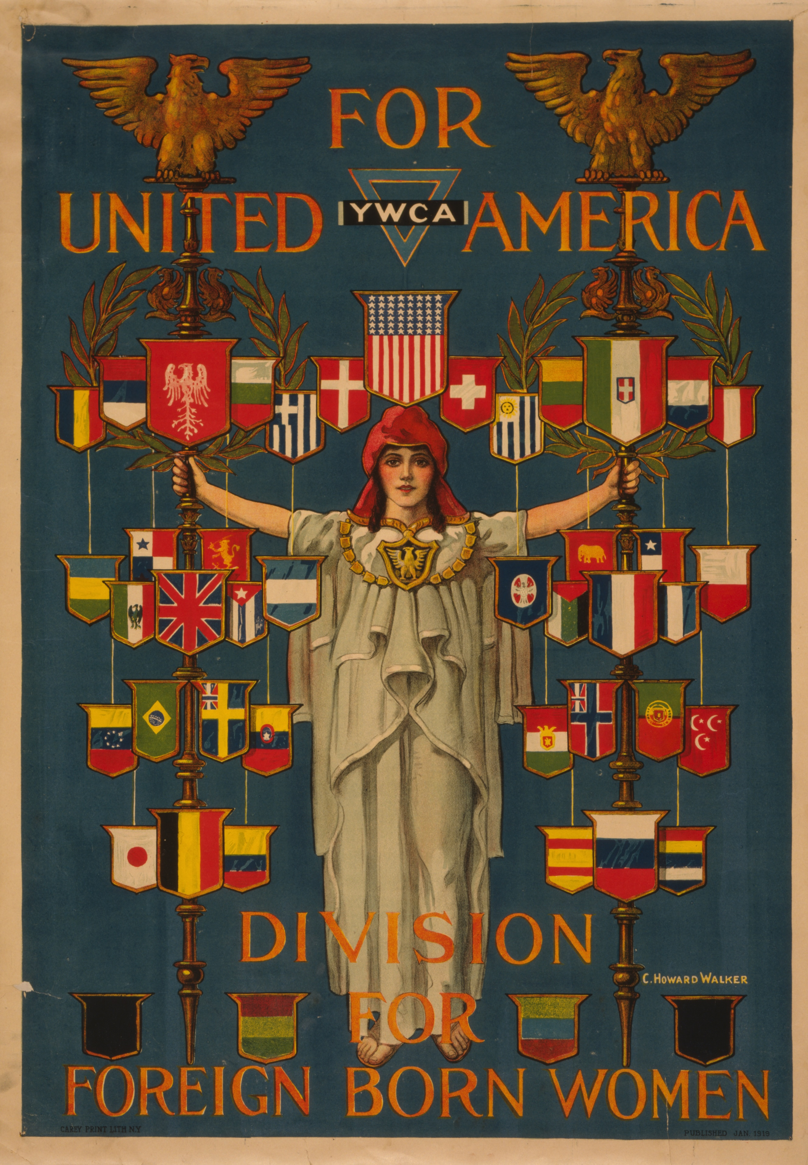 Title: For united America, YWCA division for foreign born women / C. Howard Walker ; Carey Print Lith. N.Y. Creator(s): Walker, C. Howard, artist. Date Created/Published: [S.l.] : YWCA, 1919 Jan. Medium: 1 print (poster) : lithograph, color ; 102 x 70 cm. Summary: Poster showing a female figure holding large standards bearing many shields emblazoned with national flags. Possibly part of an Americanization theme. Repository: Library of Congress Prints and Photographs Division Washington, D.C.